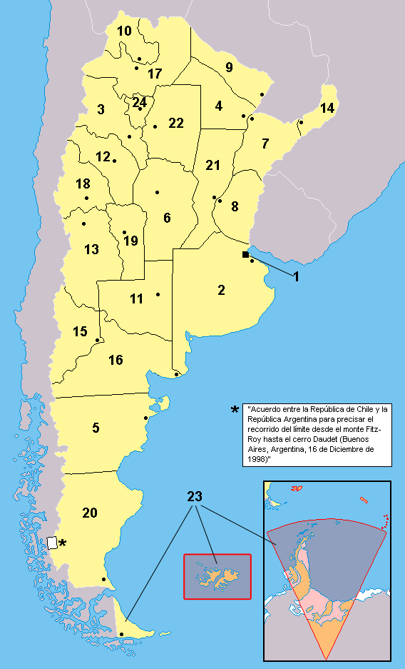 Provinces of Argentina. Territories in orange are not under efective argentine soveregnity: they are either under british control, or in a suspended claim